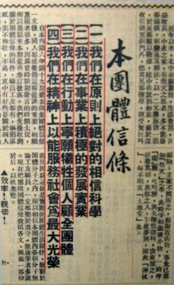 Four tenets of Newspaper Haiwang 1934